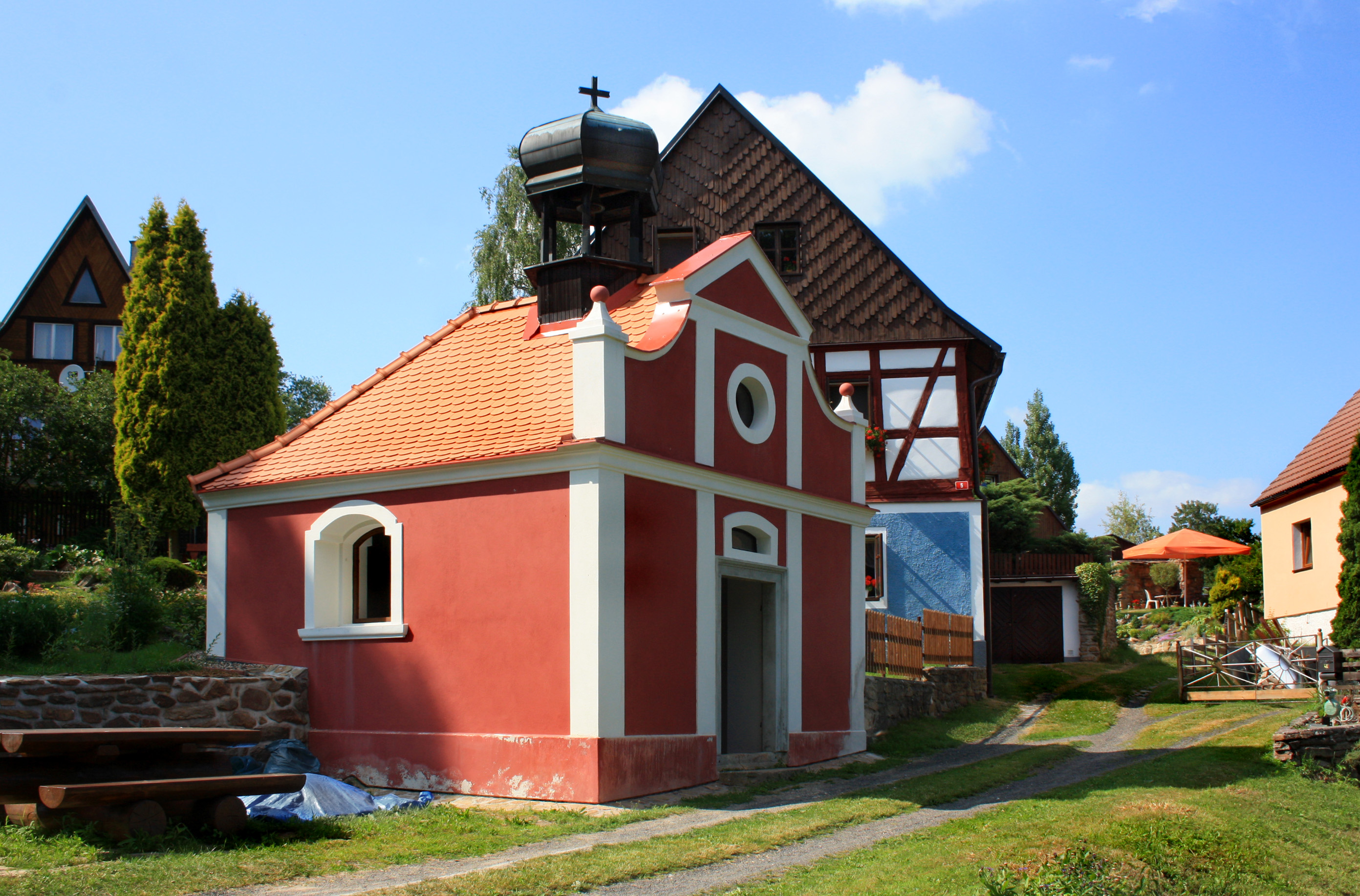 Small chapel in Hrádečná, part of Blatno, Czech Republic